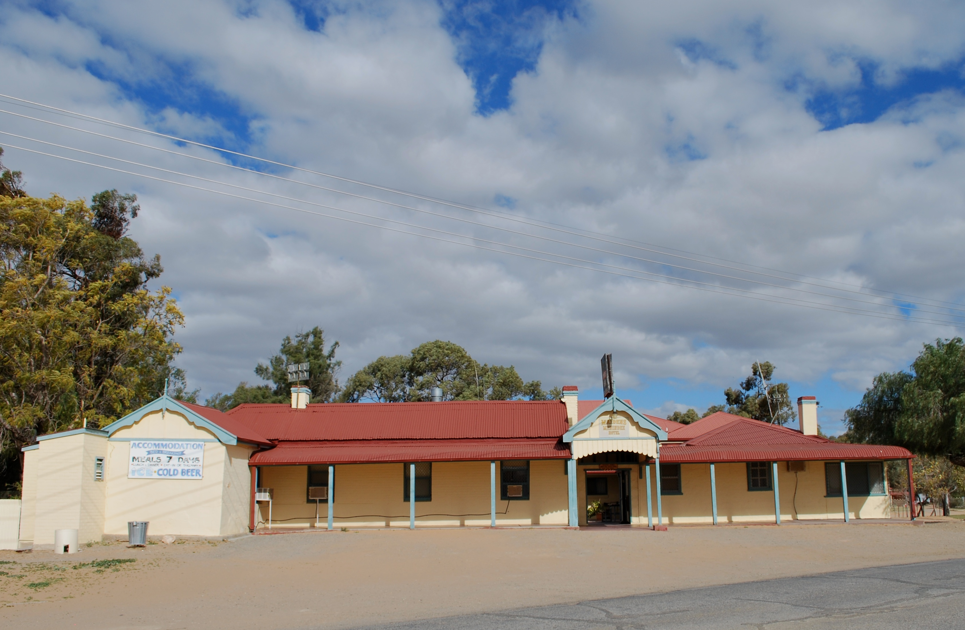 Maidens Hotel at Menindee, New South Wales